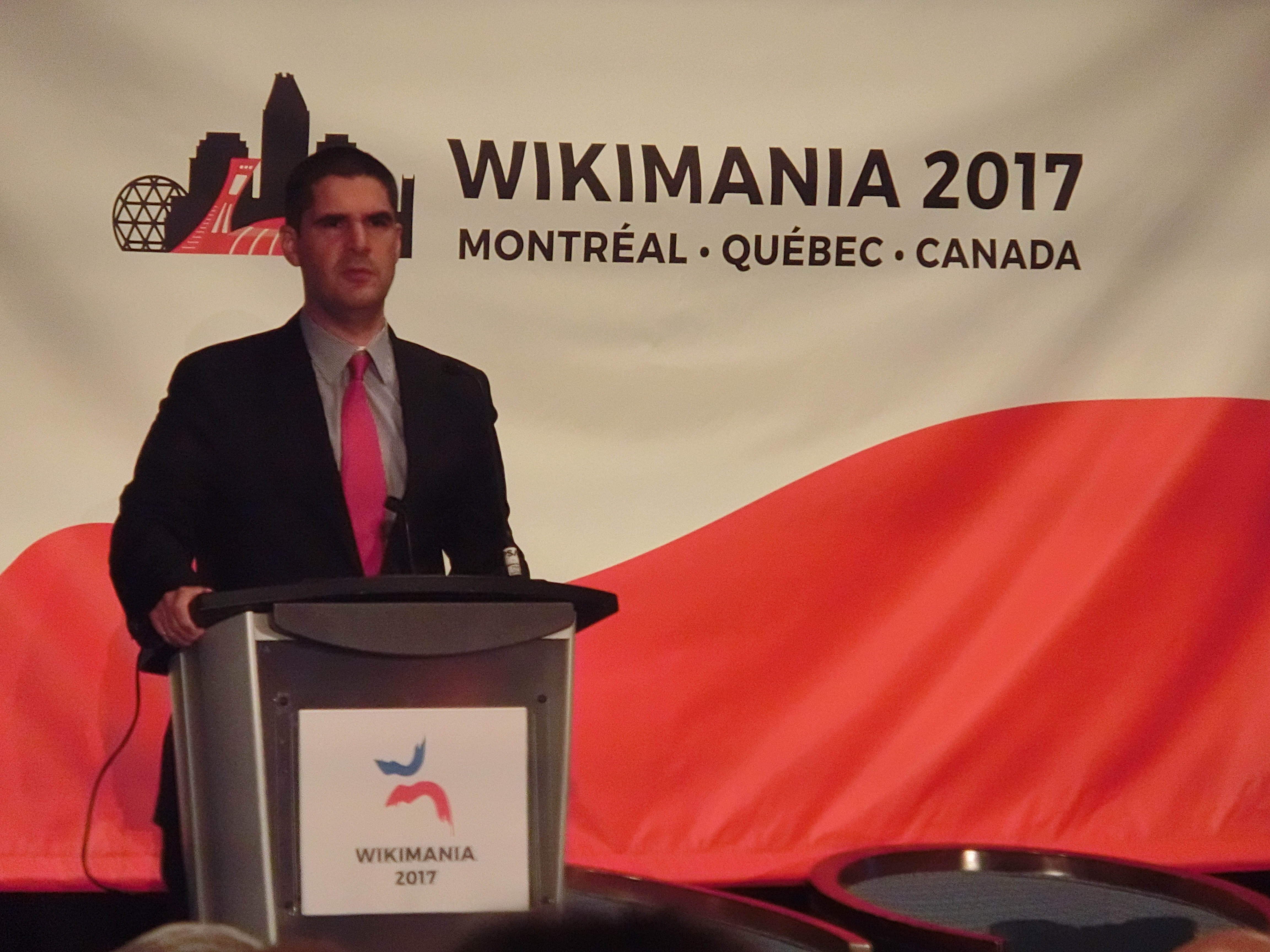 Wikimania 2017 opening ceremony